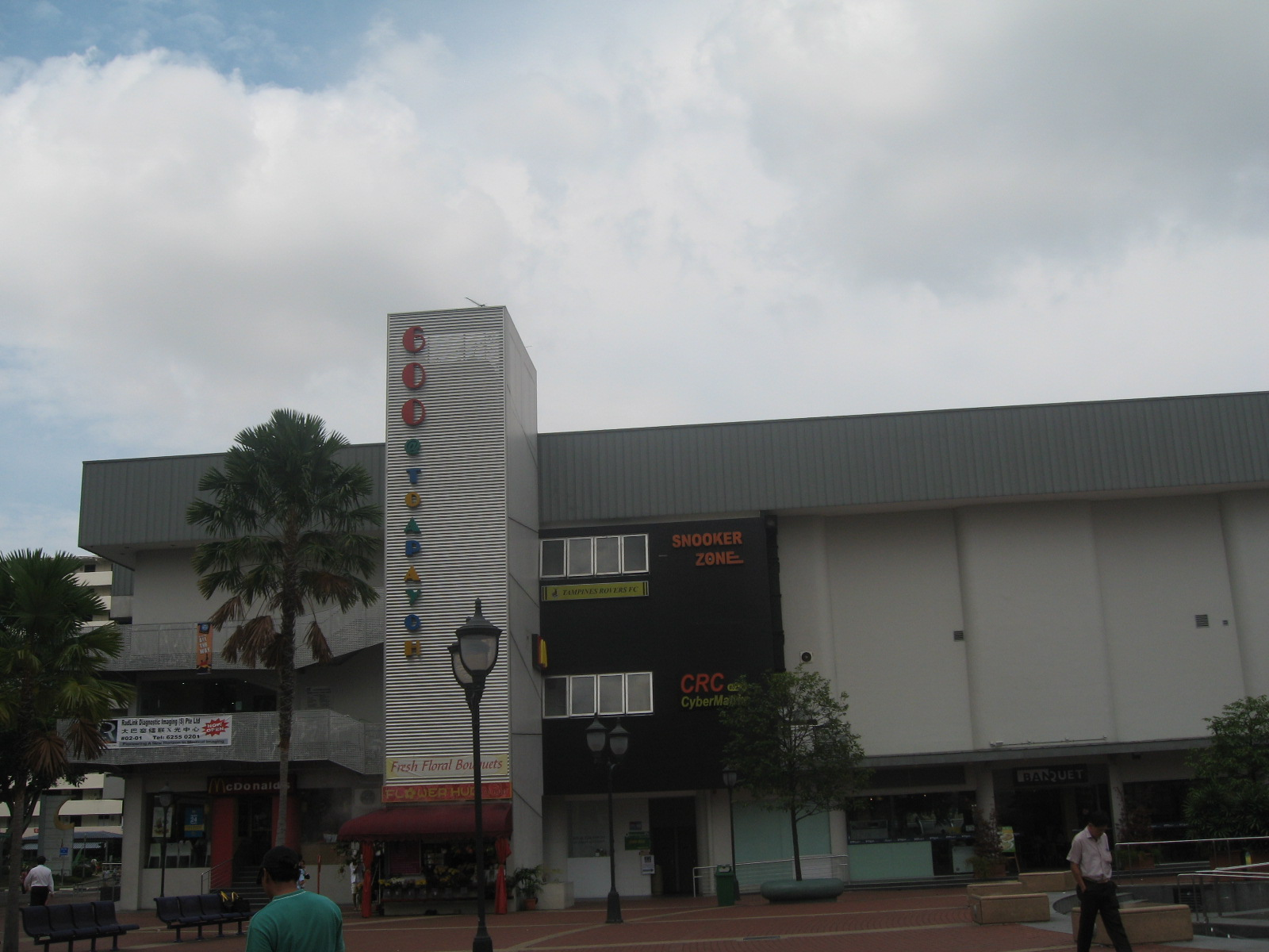 600@Toa Payoh.